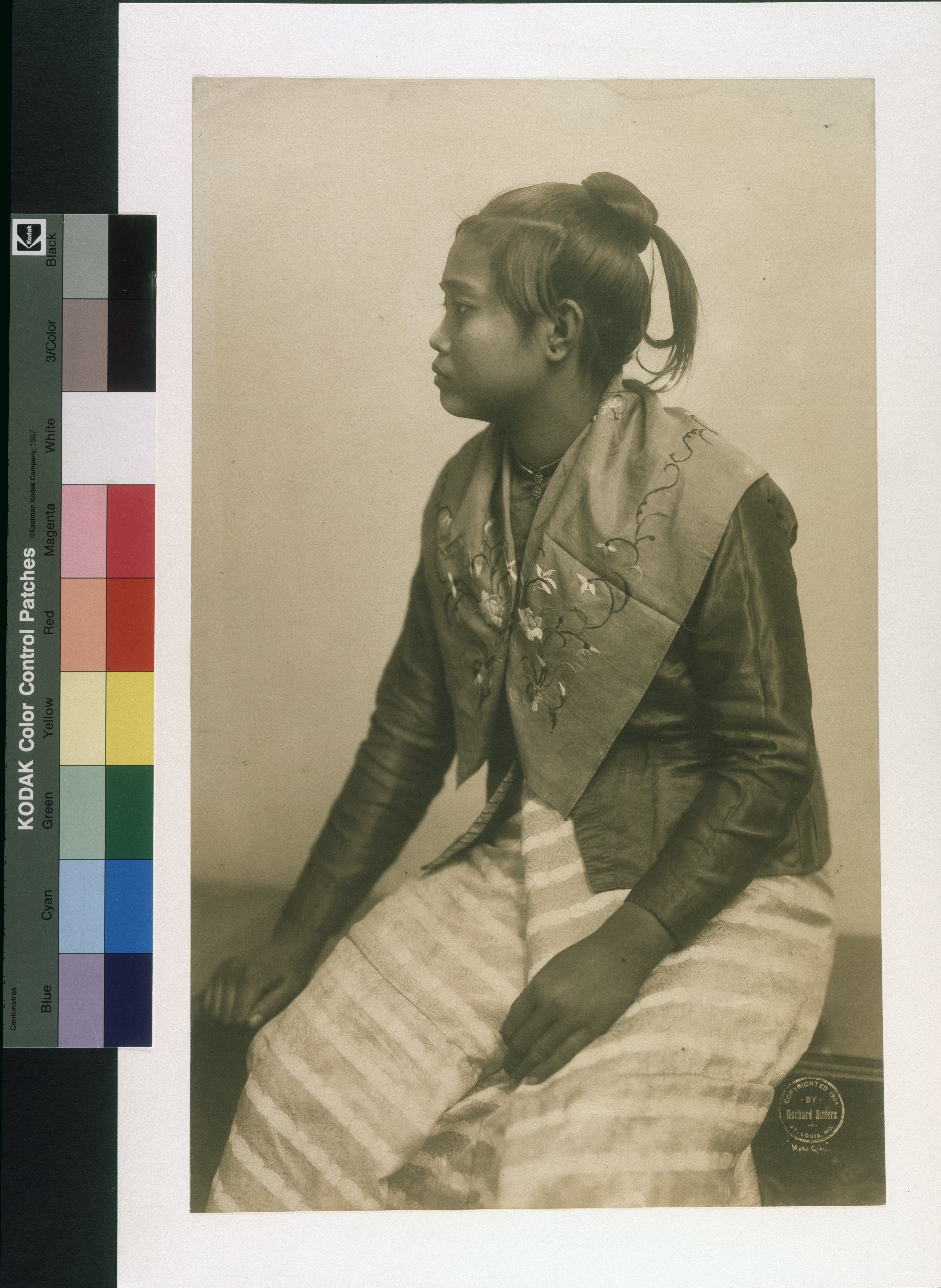 Title: "Moro Girl." (Taken during the 1904 World's Fair).